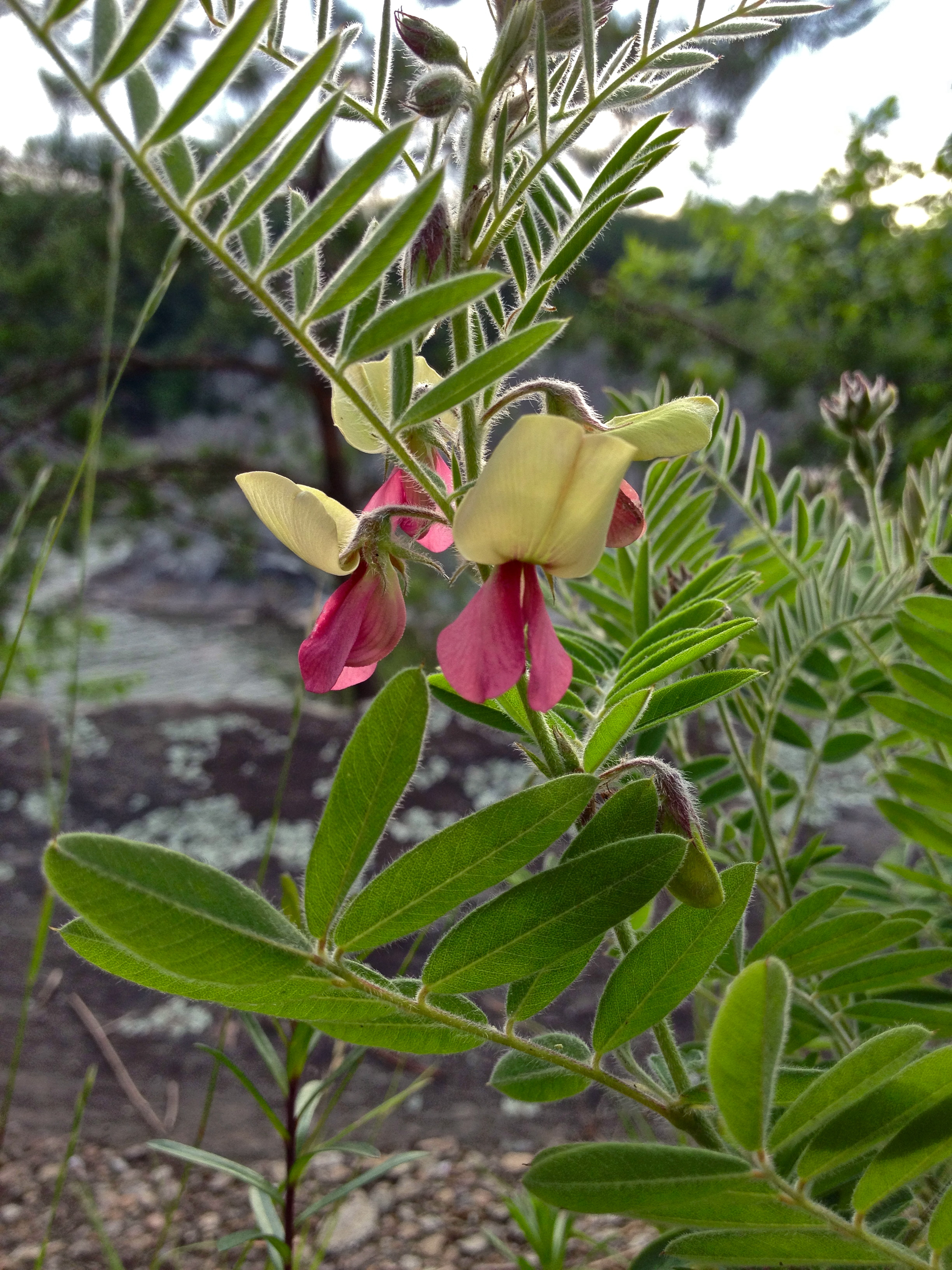 Photo of Tephrosia virginiana in flower. This is a native plant growing wild in the C & O Canal National Historical Park, in Montgomery county Maryland, USA. This species is a member of the Fabaceae family.